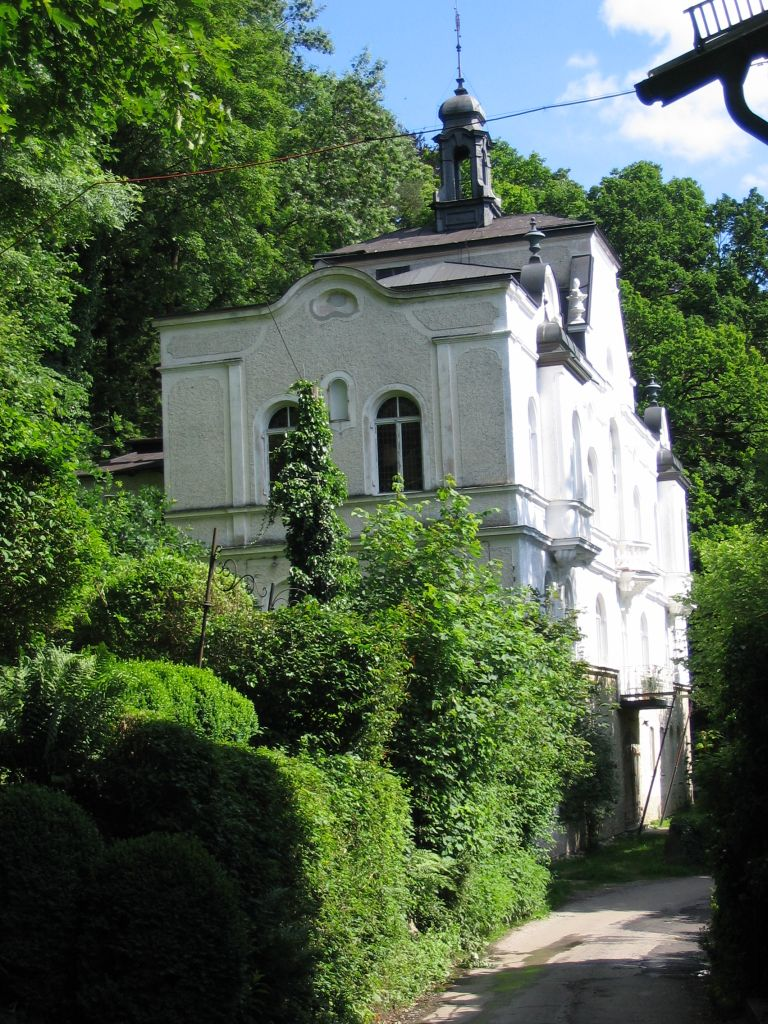 Schloß Innleiten, 1894 von Thomas Gillizer erbaut